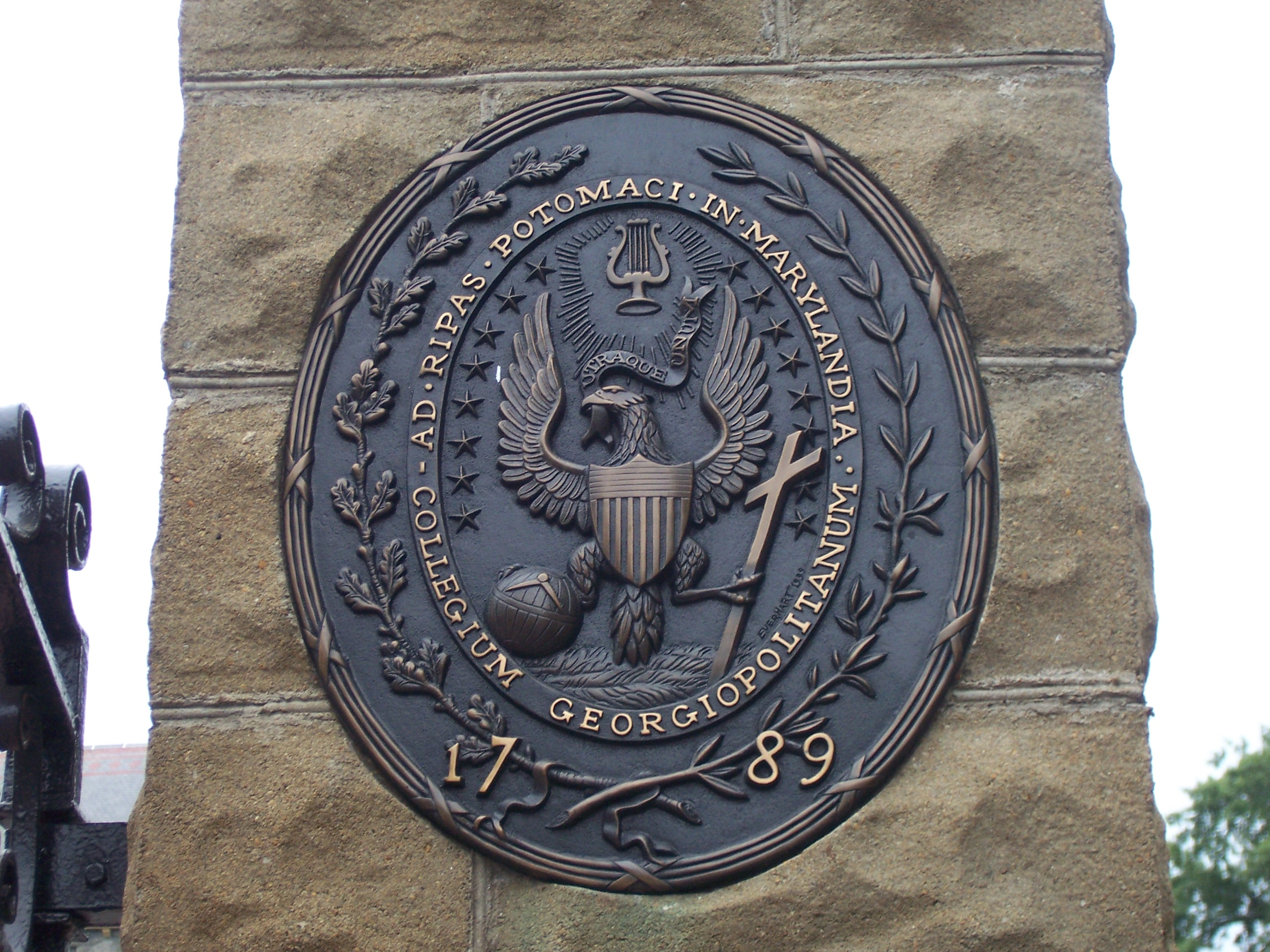 Seal at Georgetown University's main entrance